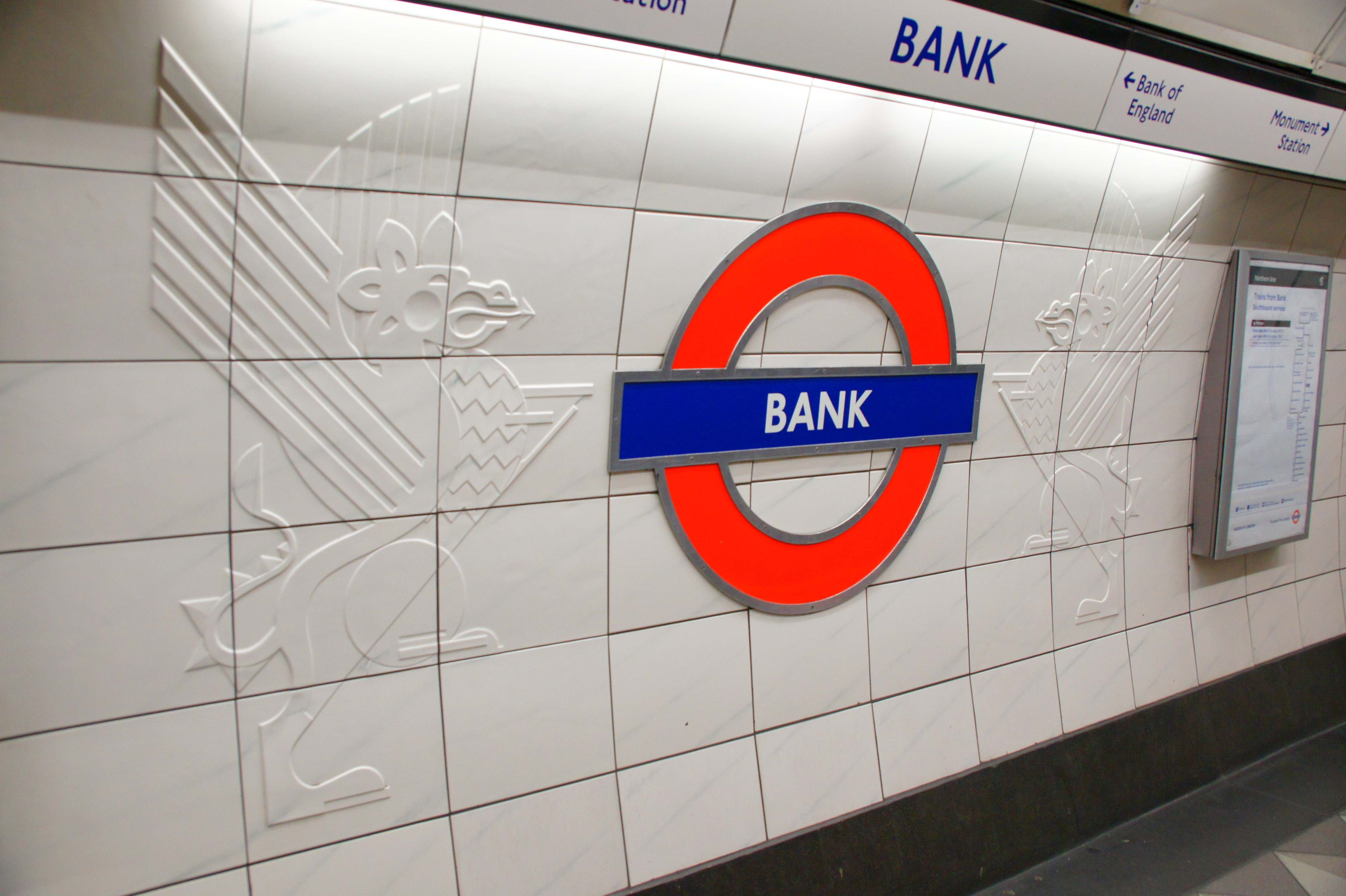 BANK-6 110813 CPS